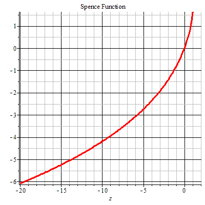 Spence Function of Dilog function 2D